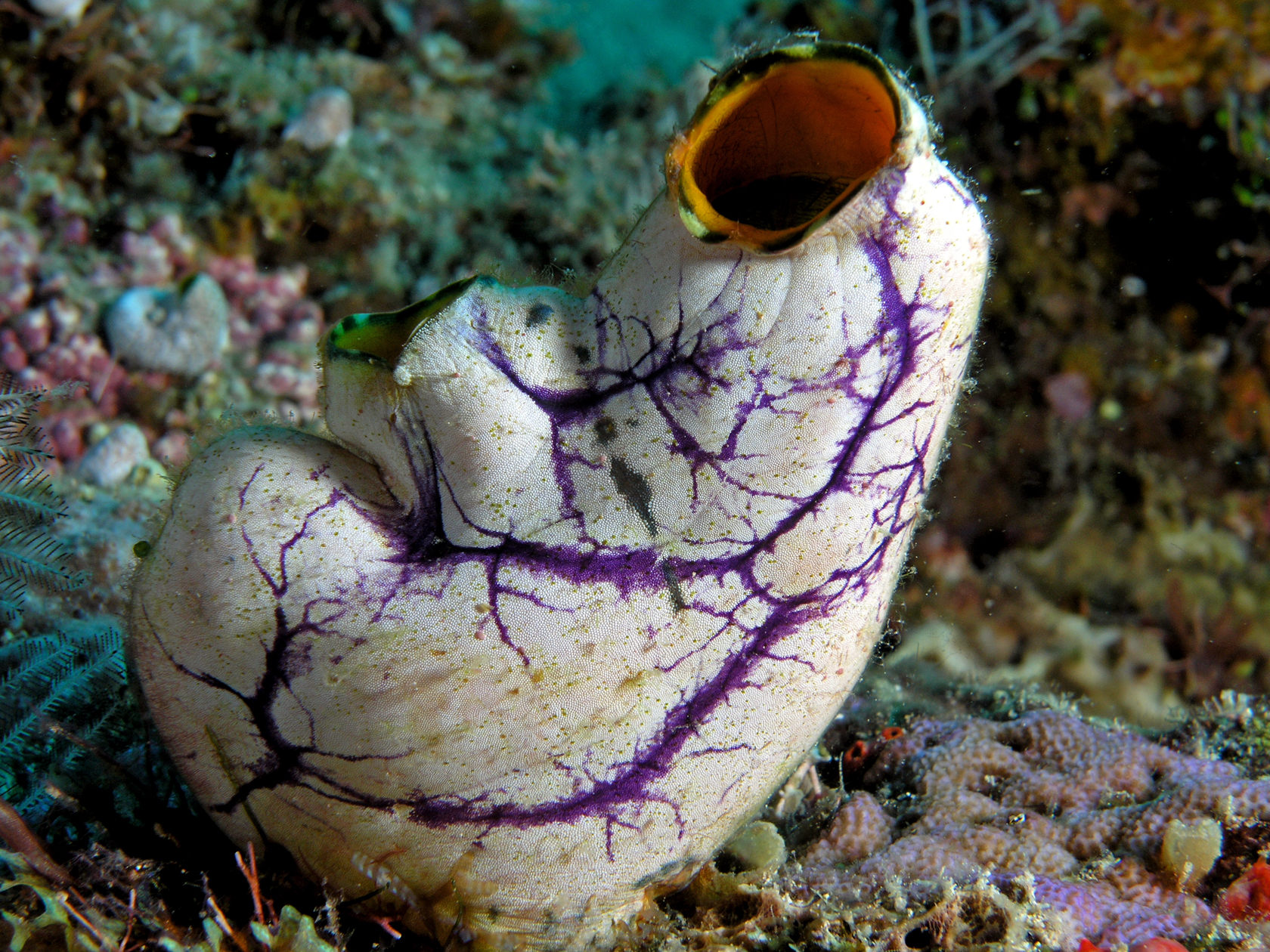 Komodo National Park sea squirt (Polycarpa aurata)